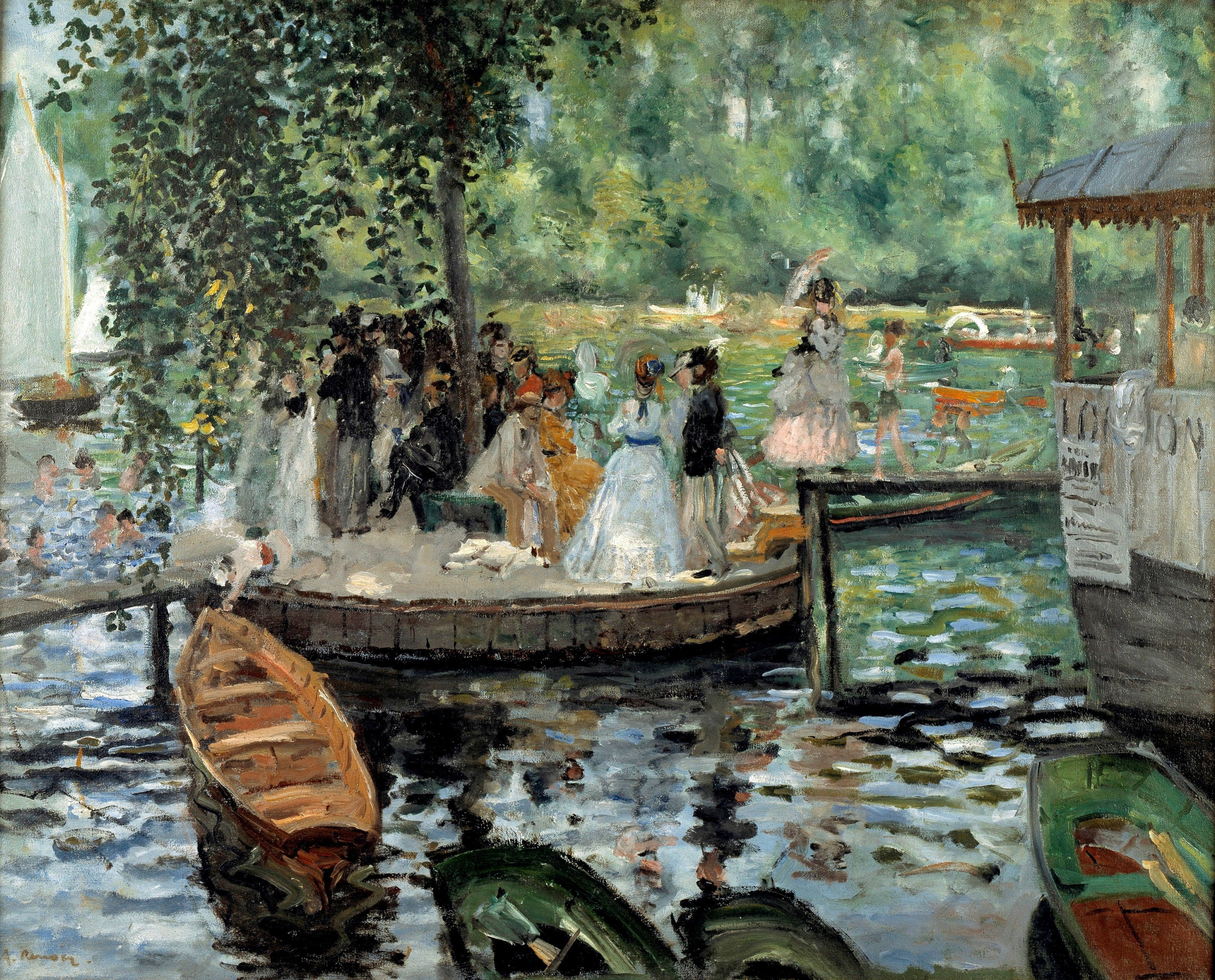 La Grenouillère, the frog pond, was a popular place for bathing and recreation among Paris' workers and middle class. It is situated in Bougival, just west of the capital. In September 1869 Auguste Renoir och Claude Monet spent a few days here together. They painted the same subject several times from different perspectives. One of Monet's painting can be seen at the Metropolitan Museum of Art, New York